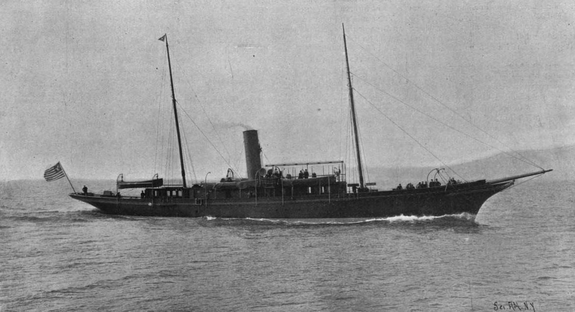 Mr J. E. Brooks of New York, English built steam yacht Andria. Launched 18 Feb 1897. Builder: Ailsa Shipbuilding Company of Ayrshire. Designer: George L. Watson.